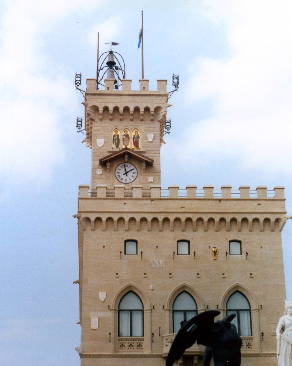 The Parliament Building of the Republic of San Marino, built in gothic-revival style, in 1884-1894, on a project by architect Francesco Azzurri.